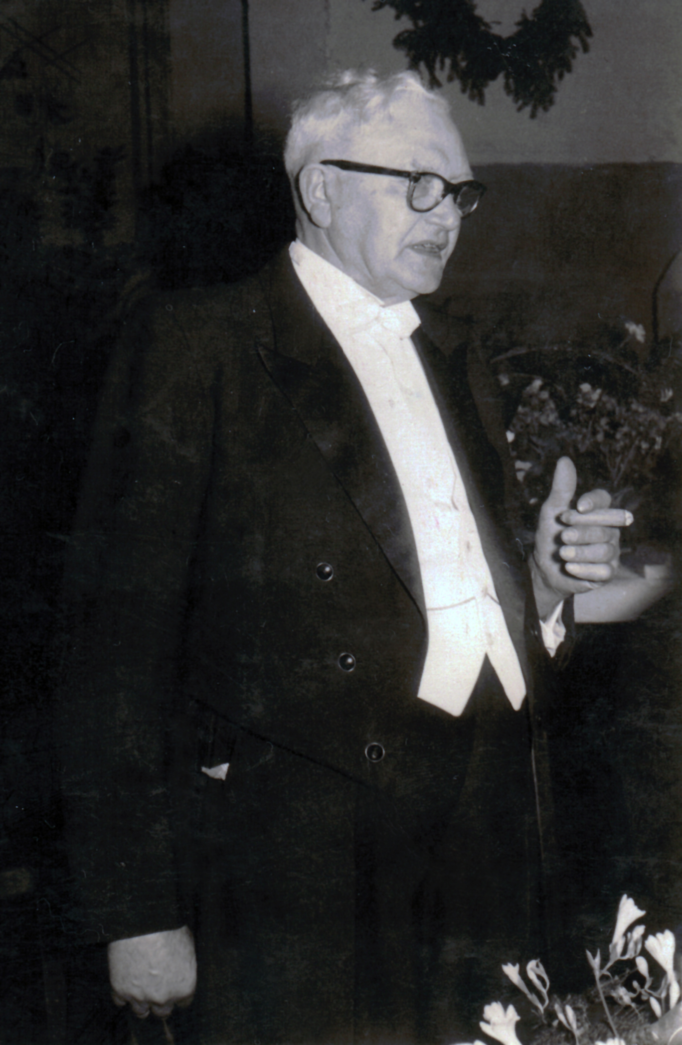 Photo of Bernhard Claves on his 70th Birthday.